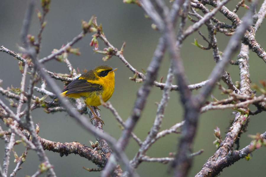 The species Golden Bush Robin had been photographed from Pangolakha Wildlife Sanctuary in East Sikkim, Sikkim, India on 13.05.2016.